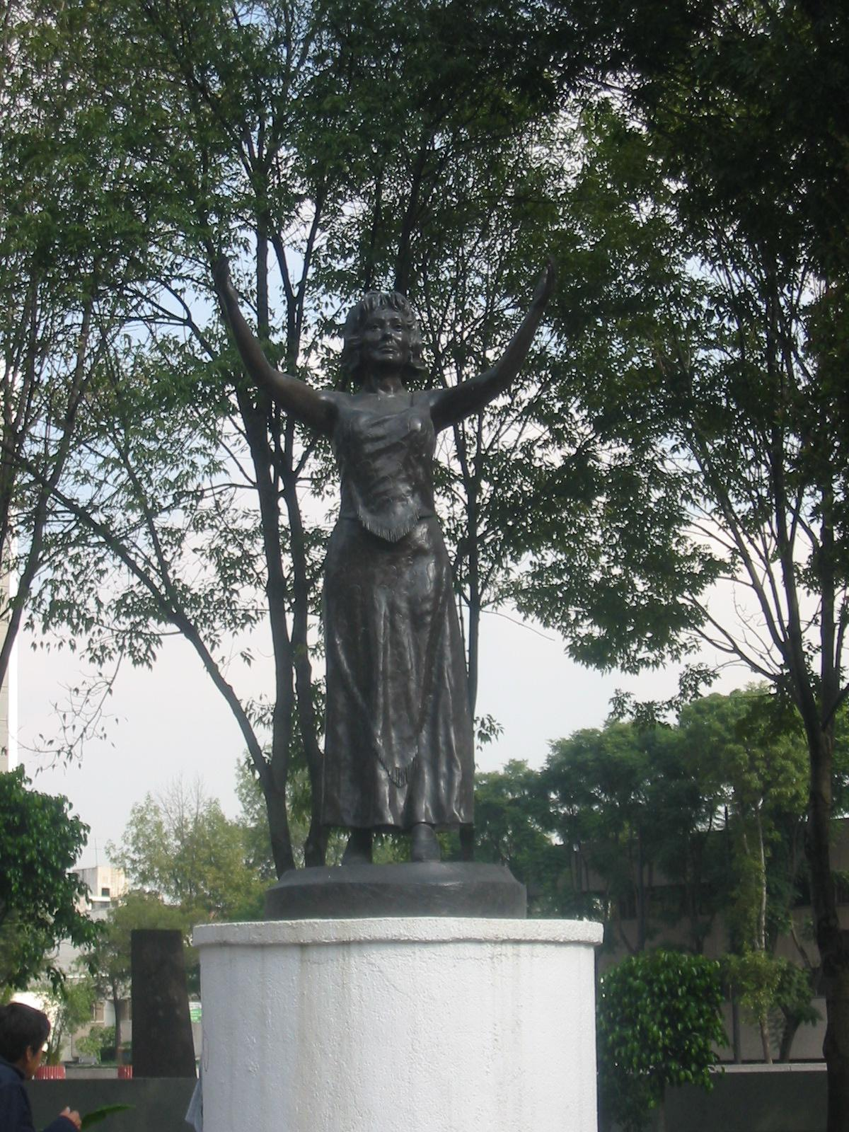 Statue of Silvia Pinal sculpted by Oscar Ponzanelli on permanent display at the Jardin de los Grandes Valores (Garden of Great Values) Erected in 2002